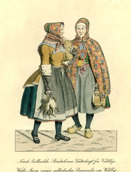 Valby women (so-called Valbykoner) anno c. 1800 from Valby in Copenhagen, Denmark. Hand-coloured engraving from the work "Klædedragter i København", udg. 1817-20. The artists were Johannes Senn and kobberstikkeren G. L. Lahde. "Der er tale om let karikerede gengivelser af typiske typer og klædedragter i København omkring år 1800."